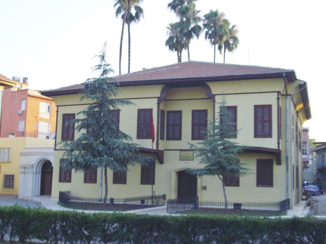 Ataturk Museum in Adana